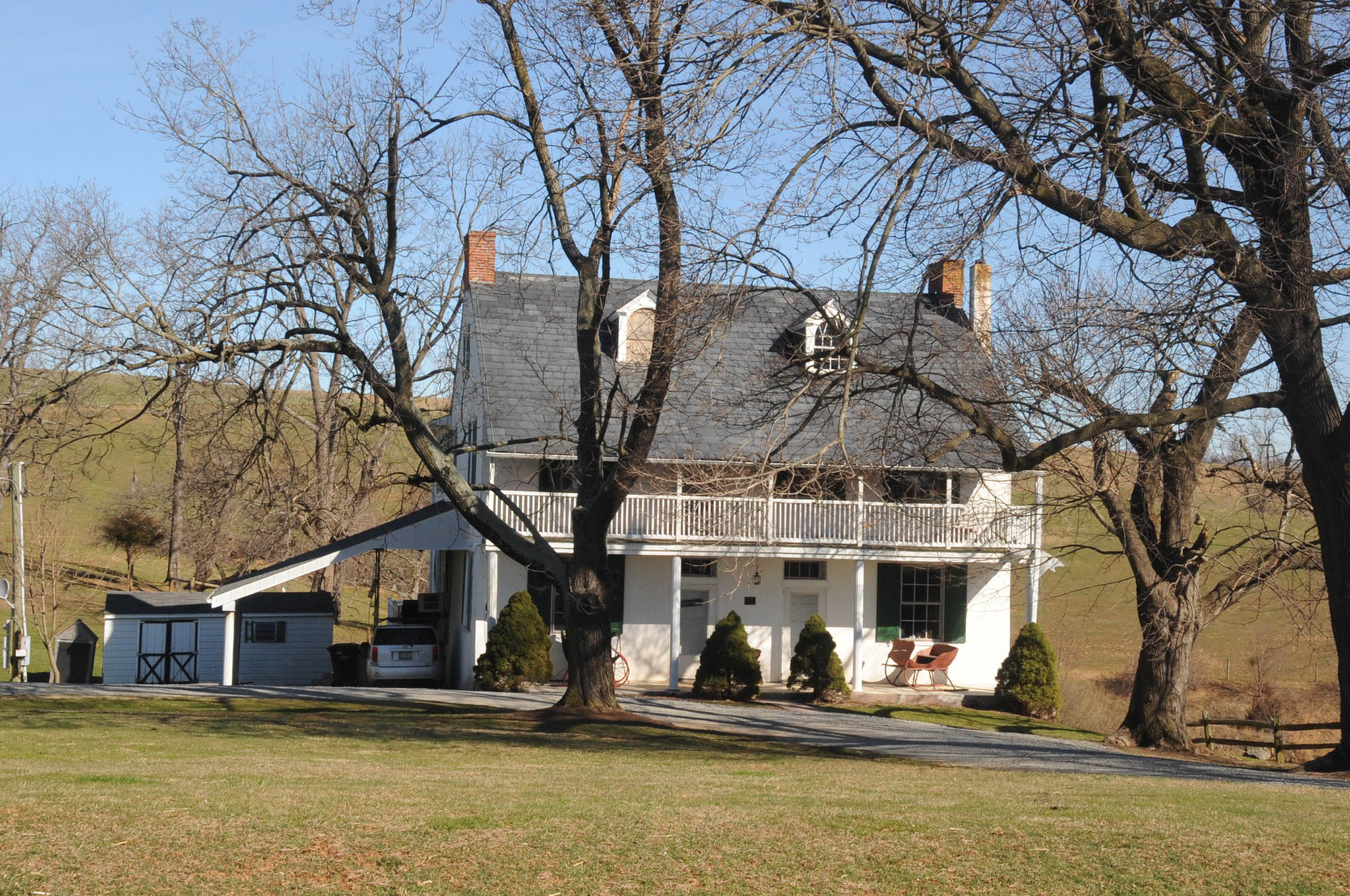 6 CONTRIBUTING BUILDINGS INCLUDING THIS FARMHOUSE BUILT IN 1790 IN GERMANIC STYLE OF STONE COVERED IN STUCCO